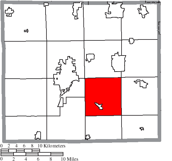 Map of the municipal and township boundaries of Wayne County, Ohio, United States, as of the 2000 census, with the location of East Union Township highlighted. Township borders are shown only in unincorporated areas in order to differentiate incorporated and unincorporated areas more clearly.